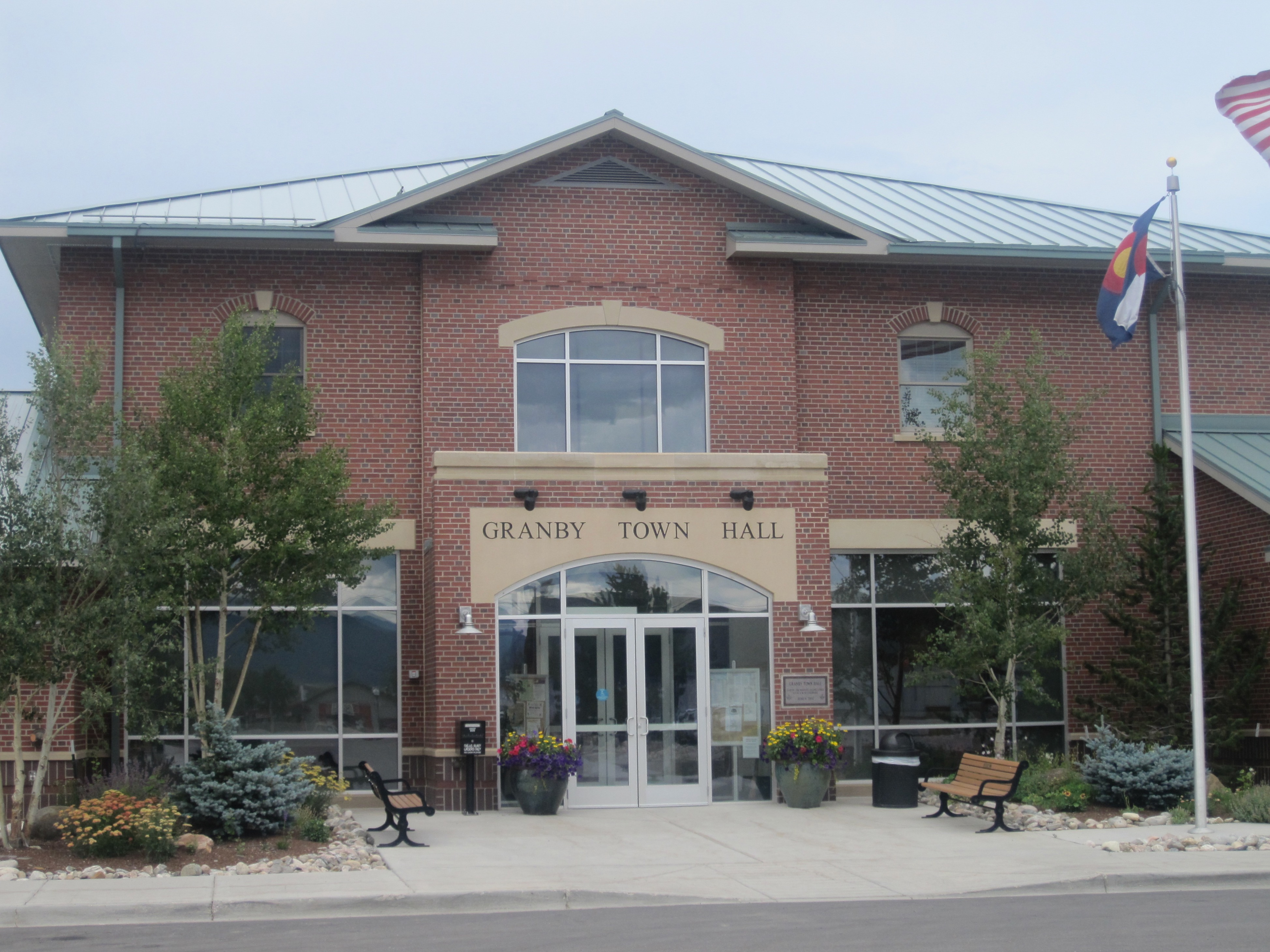 I took photo with Canon camera in Granby, CO.